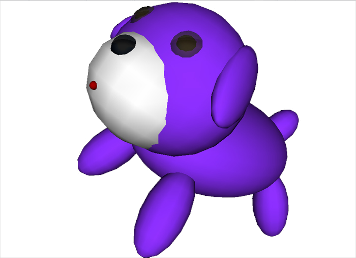 This is a 3D model of a Purple Puppy which I created when I was 12 or 13 years old.